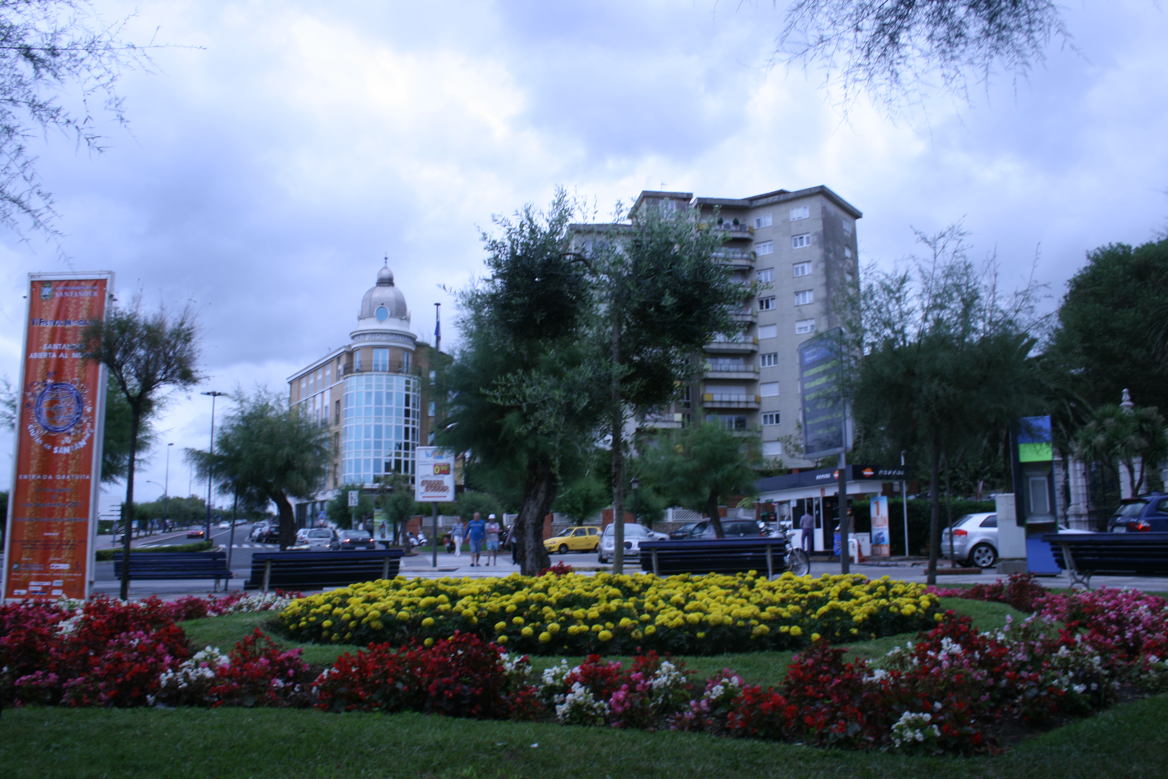 Silken Rio Hotel, Santander, Cantabria, Spain